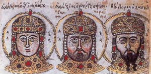 Emperors Alexius IV Angelos, Alexios V Doukas and Theodore I Laskaris.